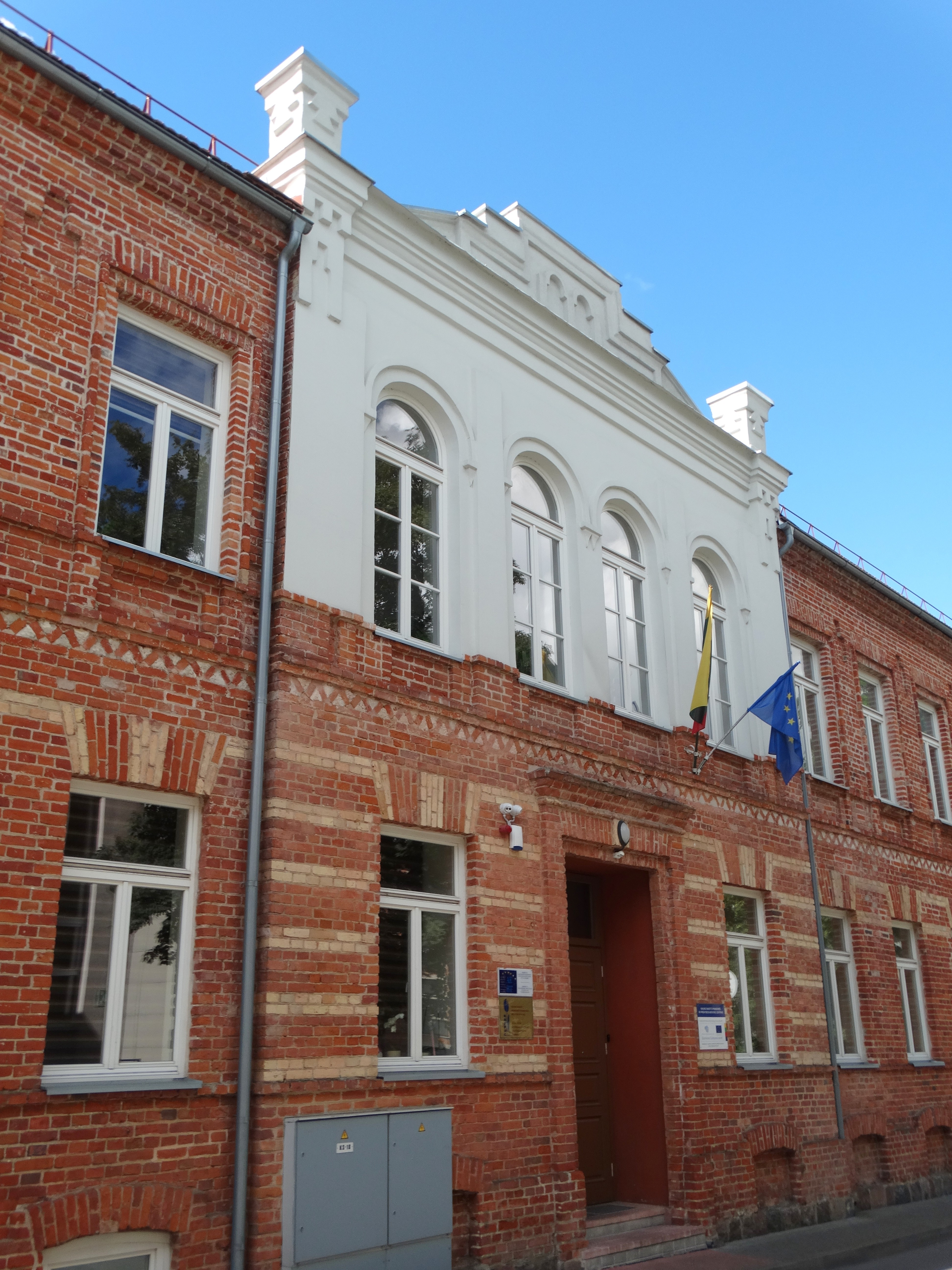 Str. 23 Poškos, Food Industry and Trade Training Centre, Kaunas, Lithuania